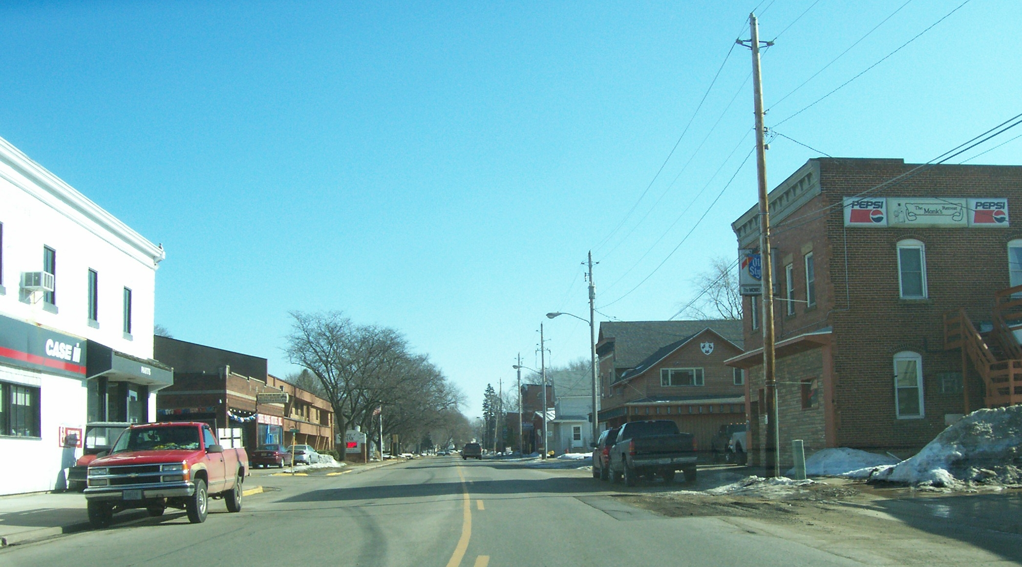 Looking east at downtown Cross Plains, Wisconsin on U.S. Route 14.